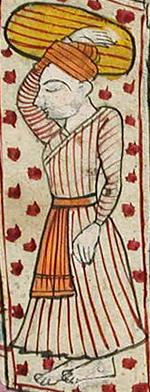 Series Title: Gulshan-i Ishq Suite Name: Gulshan-i Ishq Creation Date: ca. 1750 Display Dimensions: 9 1/4 in. x 6 1/16 in. (23.5 cm x 15.4 cm) Credit Line: Edwin Binney 3rd Collection Accession Number: 1990.534 Collection: The San Diego Museum of Art